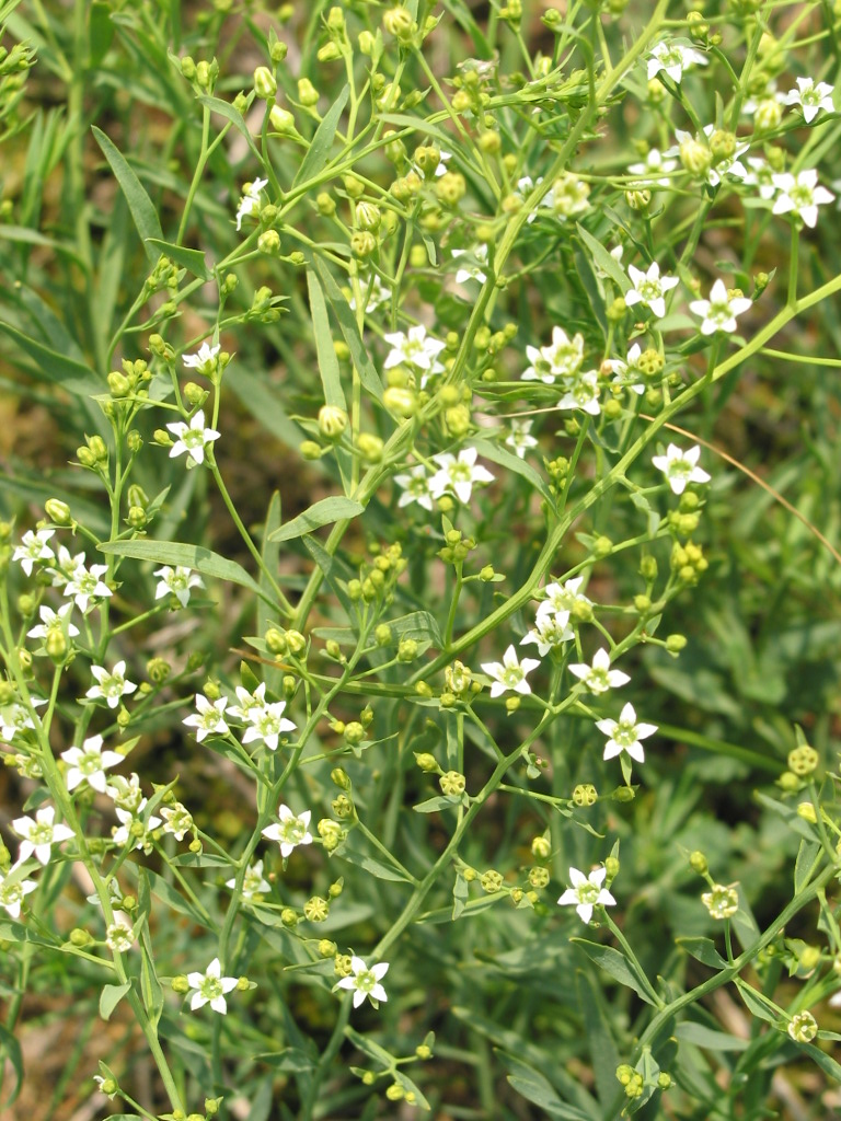 Thesium linophyllon